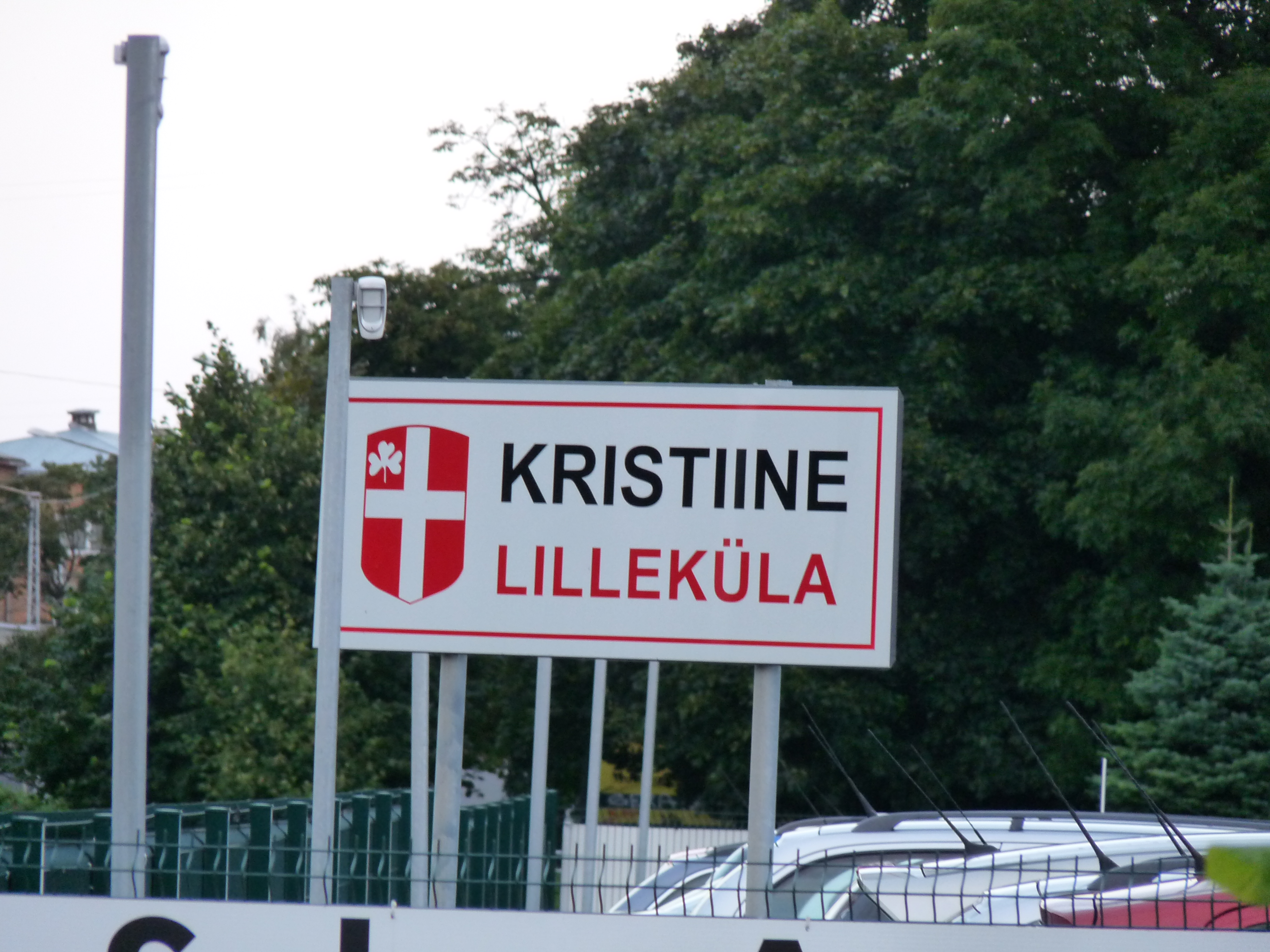 Kristiine road sign